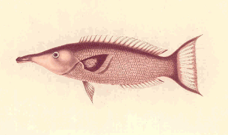 Gomphosus Viridis Nil Talapat-Girawah Subject: Osteichthyes, Fishes--Sri Lanka Tag: Fish